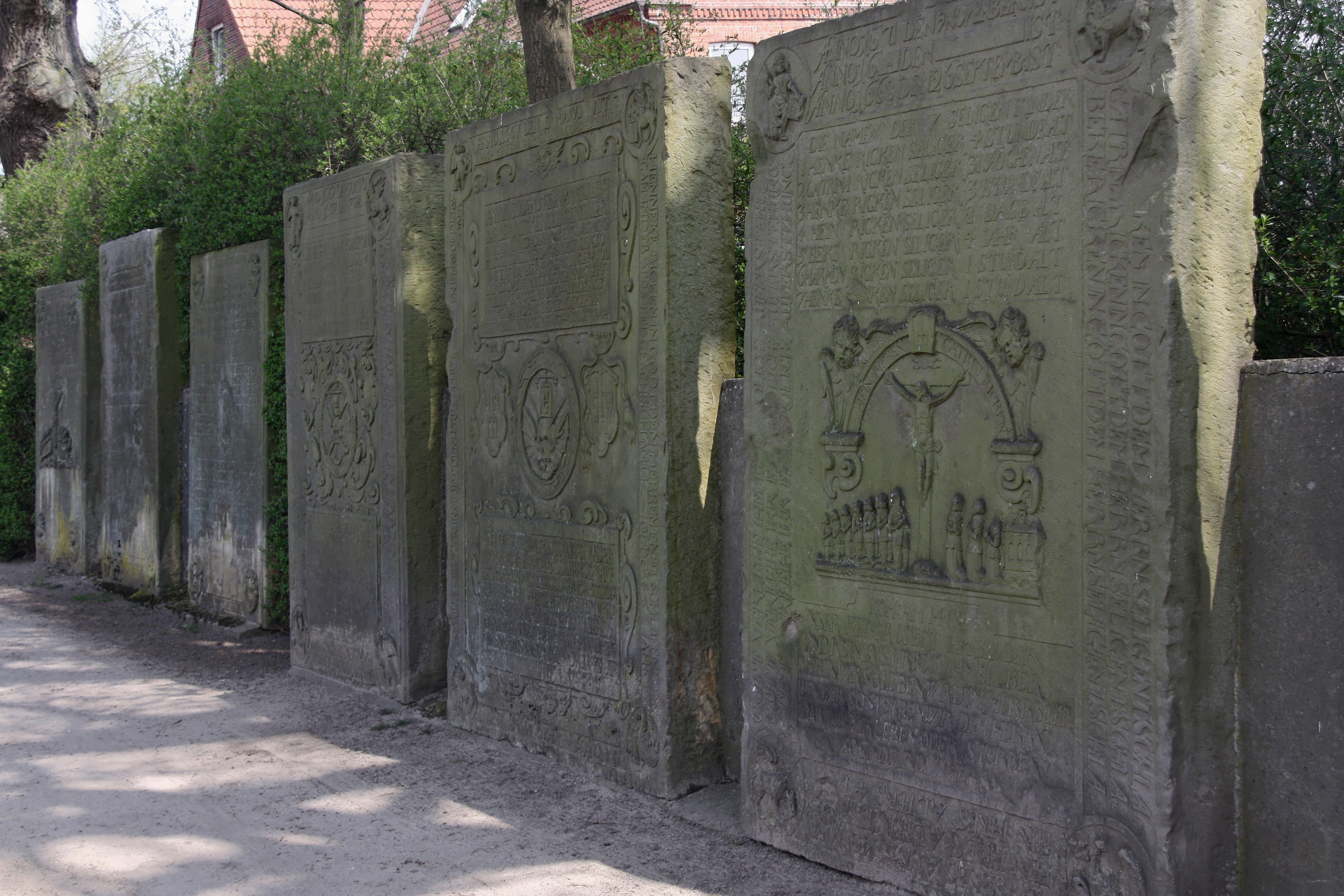 Church St. Severini, Hamburg-Kirchwerder, gravestones